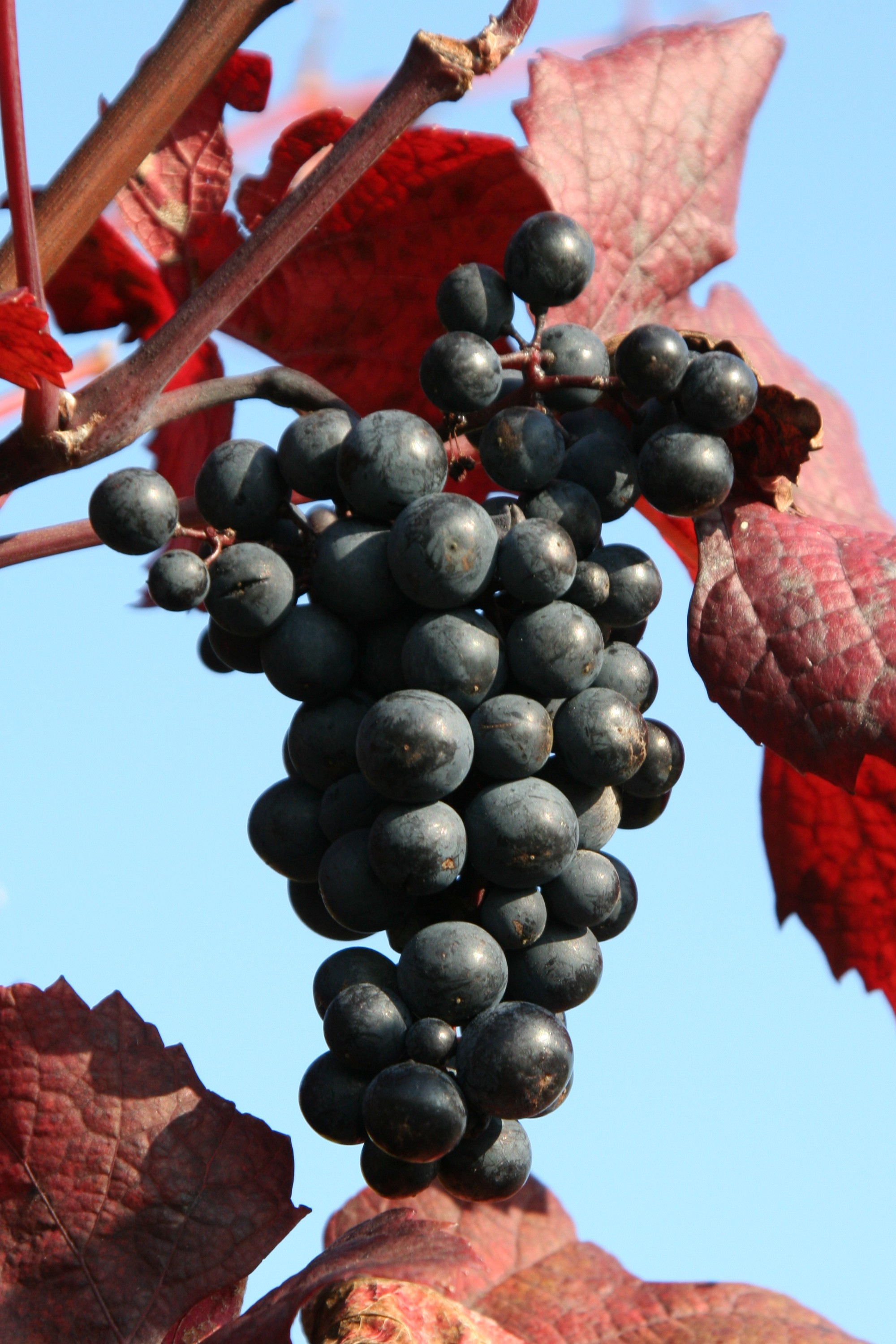 Grapes and leaves of the grape variety Kolor, photographed at the viticulture trail on the Schemelsberg hill in Weinsberg